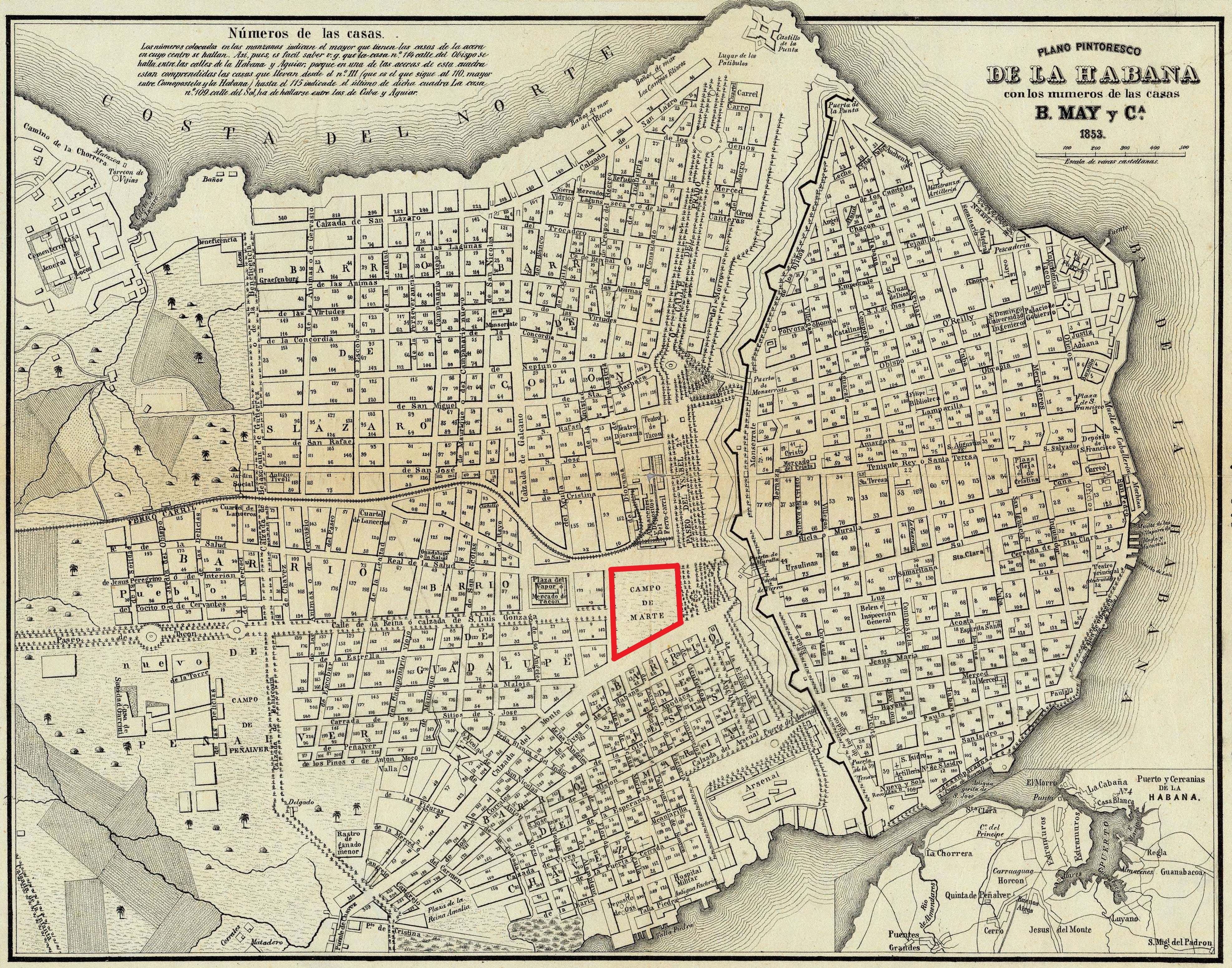 Map of Havana, 1853, showing Campo de Marte